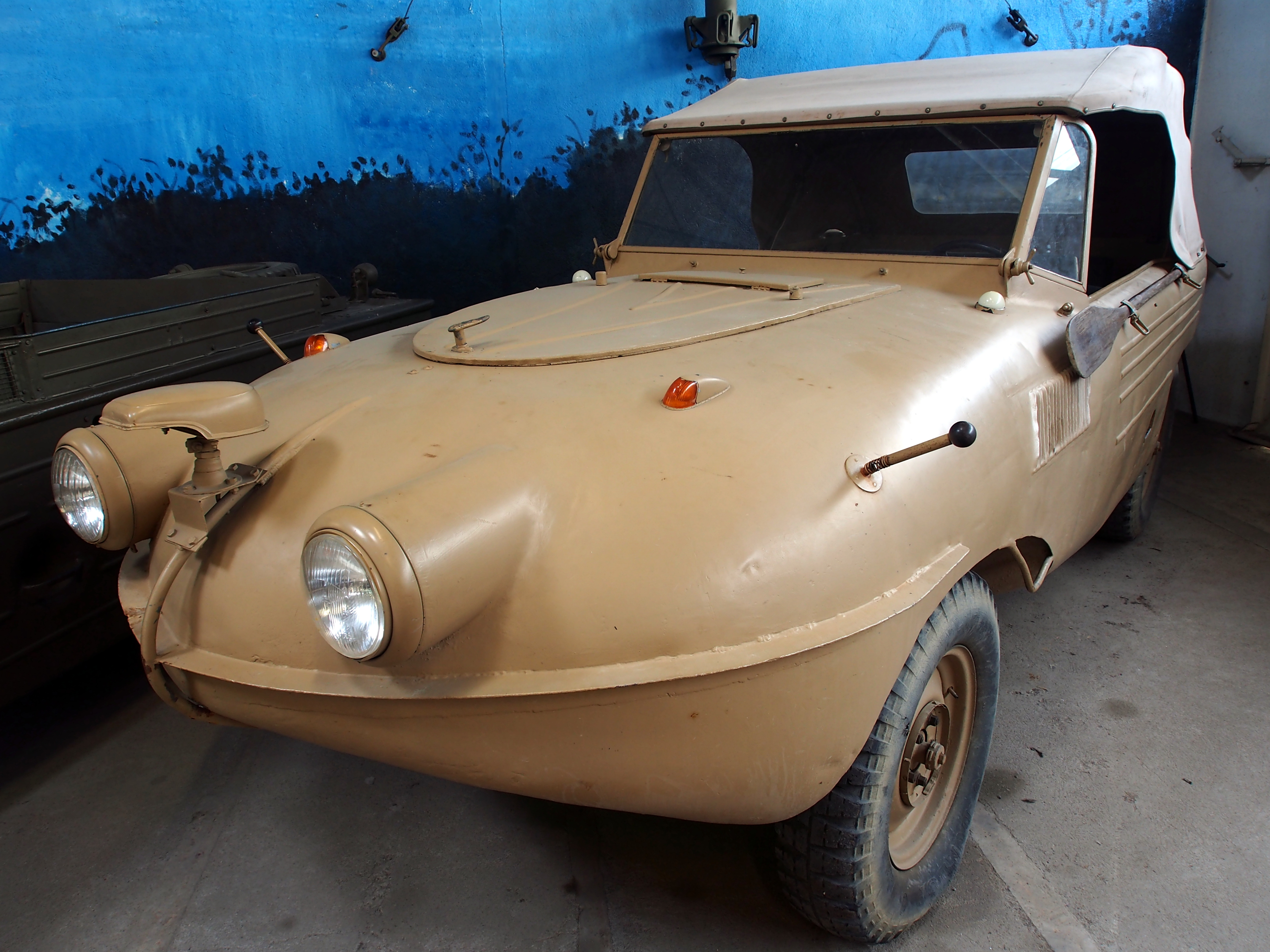 Photographed in the Musée des Blindés, France.